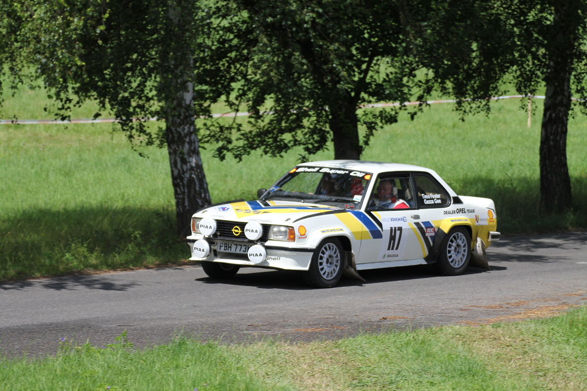 H7 Gary Gee - Tim Foster (GBR) - Opel Ascona 400 / group B / 1980